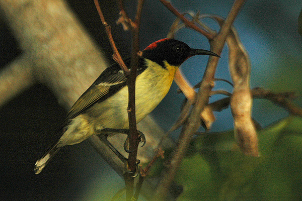 Orange-breasted Myzomela (Myzomela jugularis)